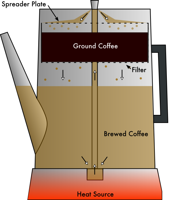 Cutaway diagram of a coffee percolator